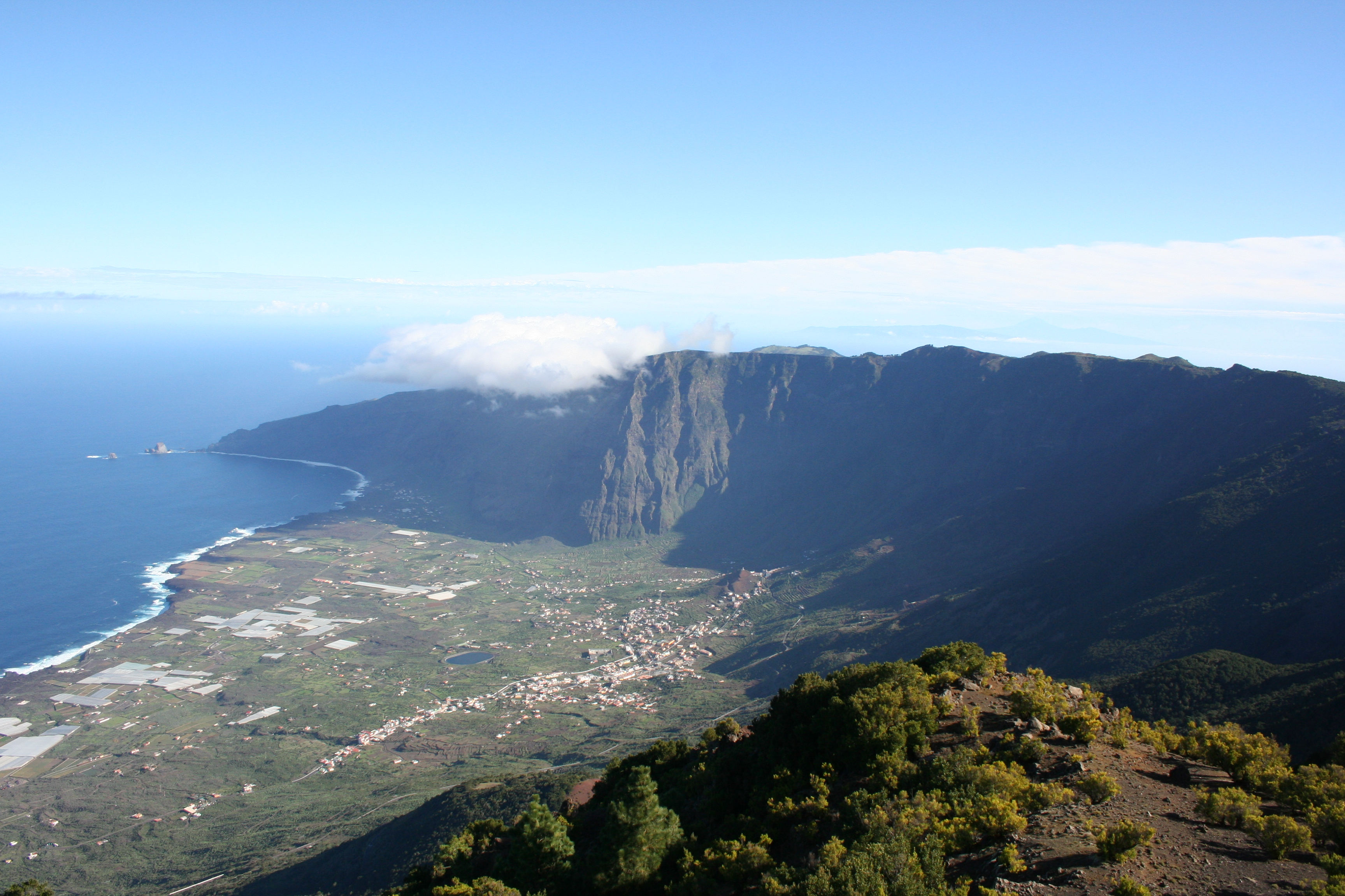 Seen from Malpaso, at 1500 meters, the highest point of El Hierro. This is not a volcanic crater. The island was 2000 meters high and just 15,000 years ago the missing land collapsed on the ocean. The landsline produced a big tsunami. More information, Canary Islands Landslides and Tsunami Generation (PDF); en español: El Mega-Tsunami que provocó la Isla de El Hierro. This is a photography of a Special Area of Conservation in Spain with the ID: ES7020003. Natura2000 entry, EEA entry